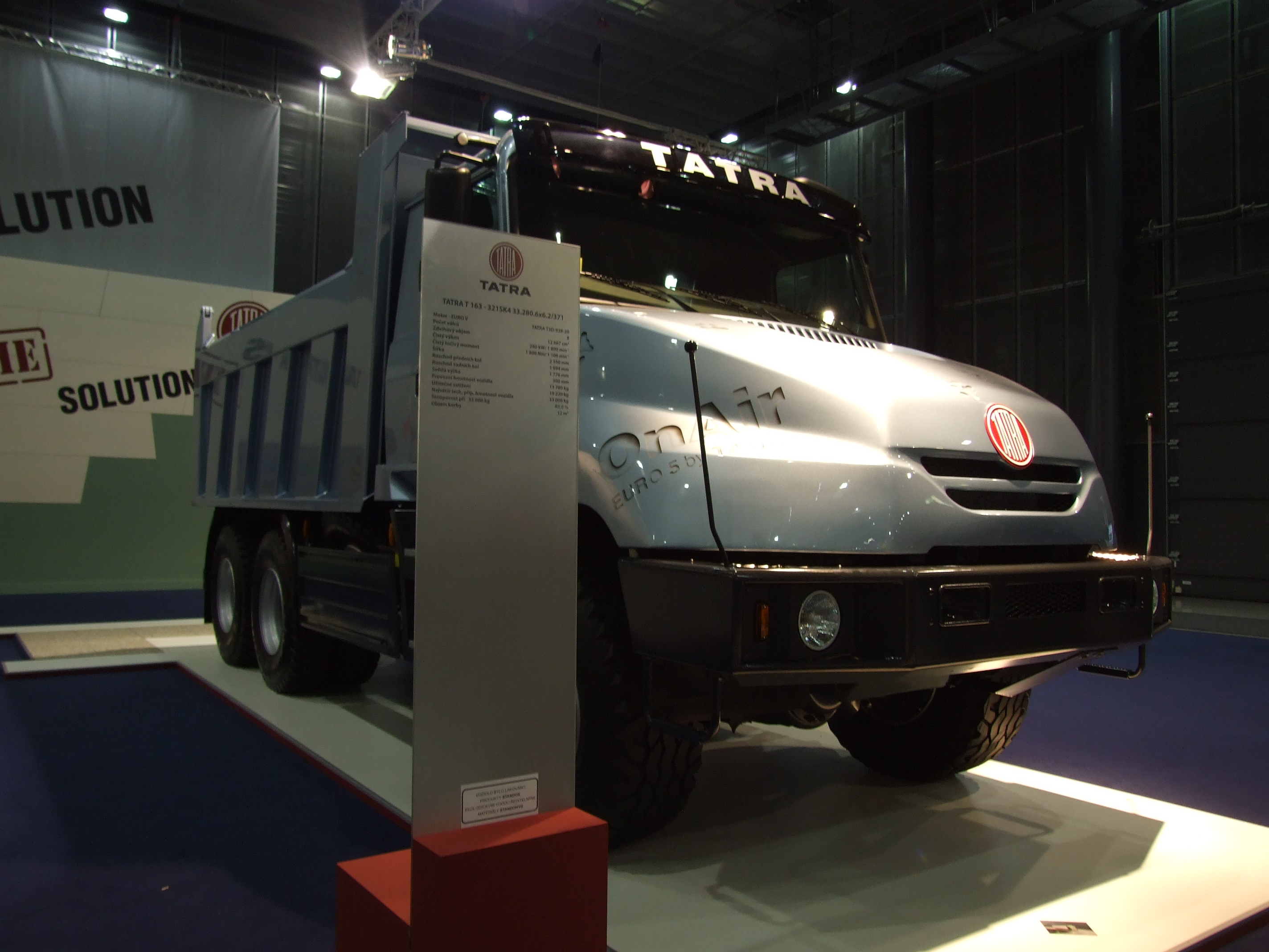 Tatra Jamal at Brno 2008 Autotec fairhelp